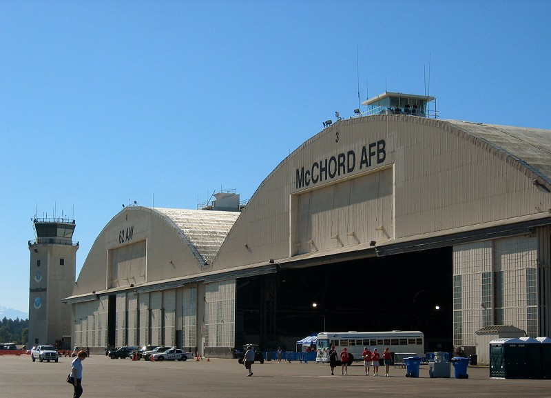 Mcchord Air Force Base main hangar and control tower during the airshow on July 31st 2005